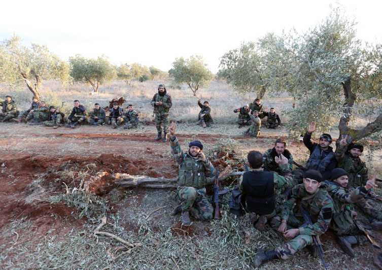 Syrian Army Breaks Several-Year-Long Siege of Nubl and Al-Zahra Towns